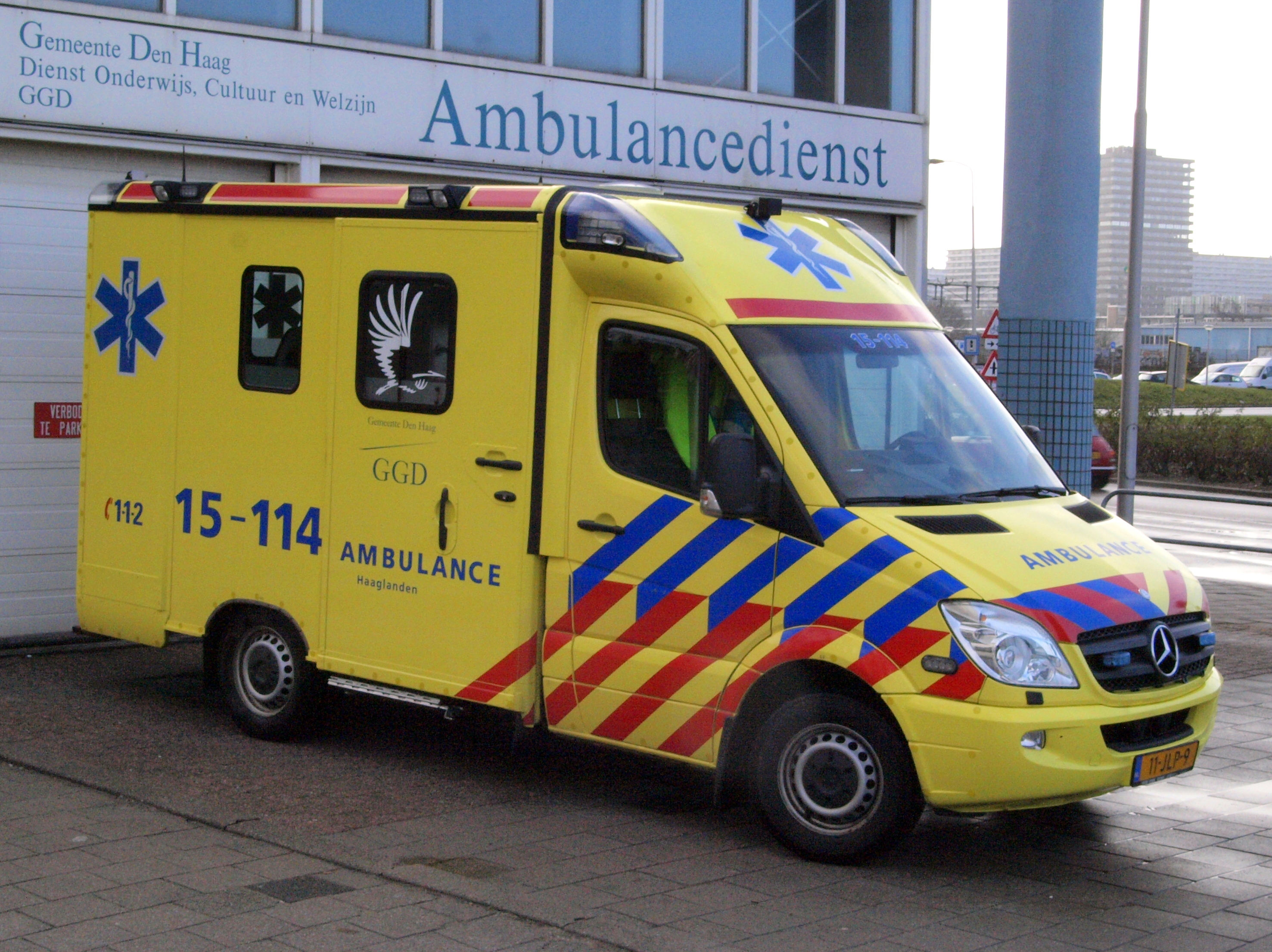 Ambulance Haaglanden unit 15-114, Mercedes at Delft, The Netherlands